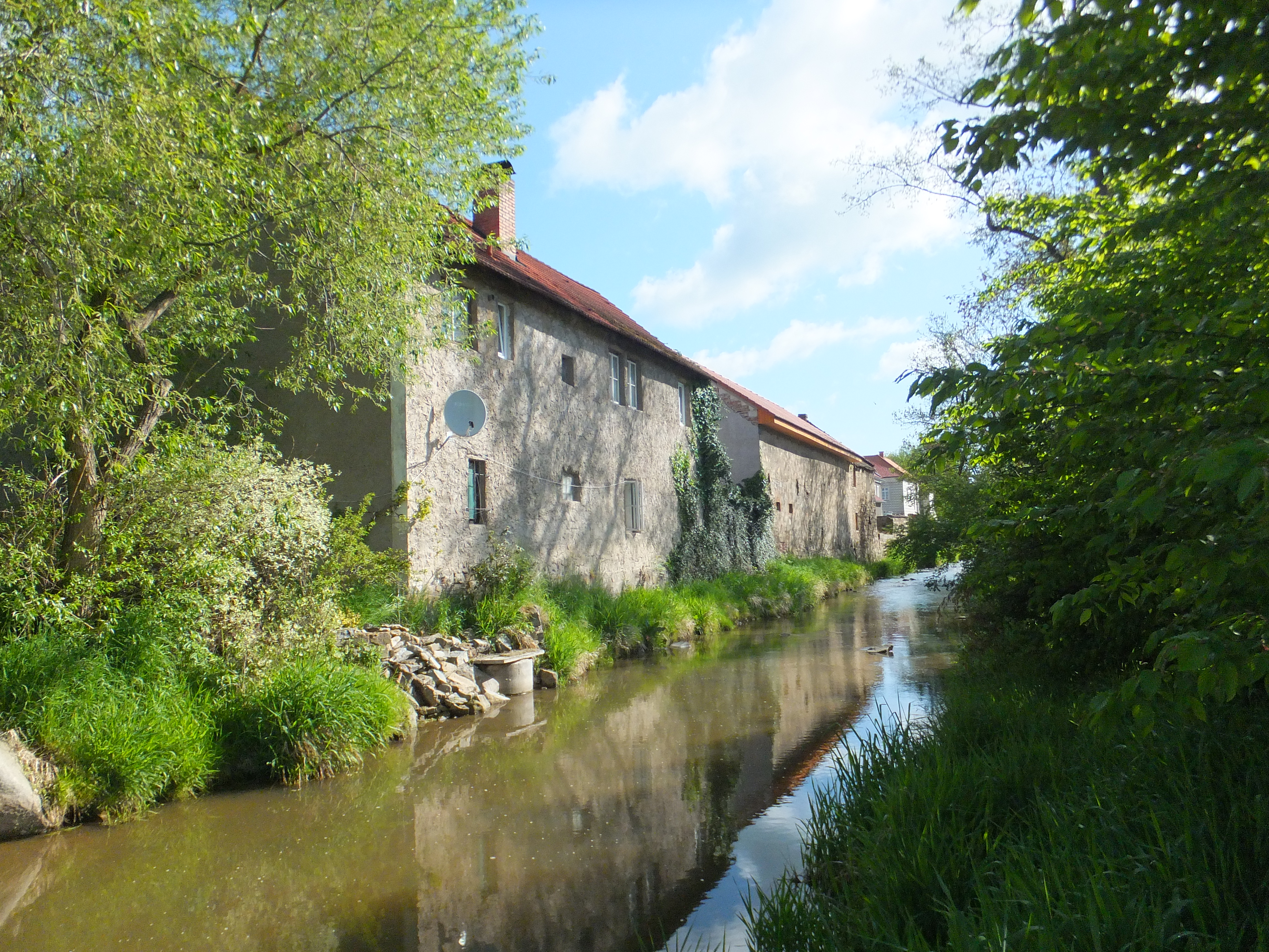 Mastník creek in Kosova Hora